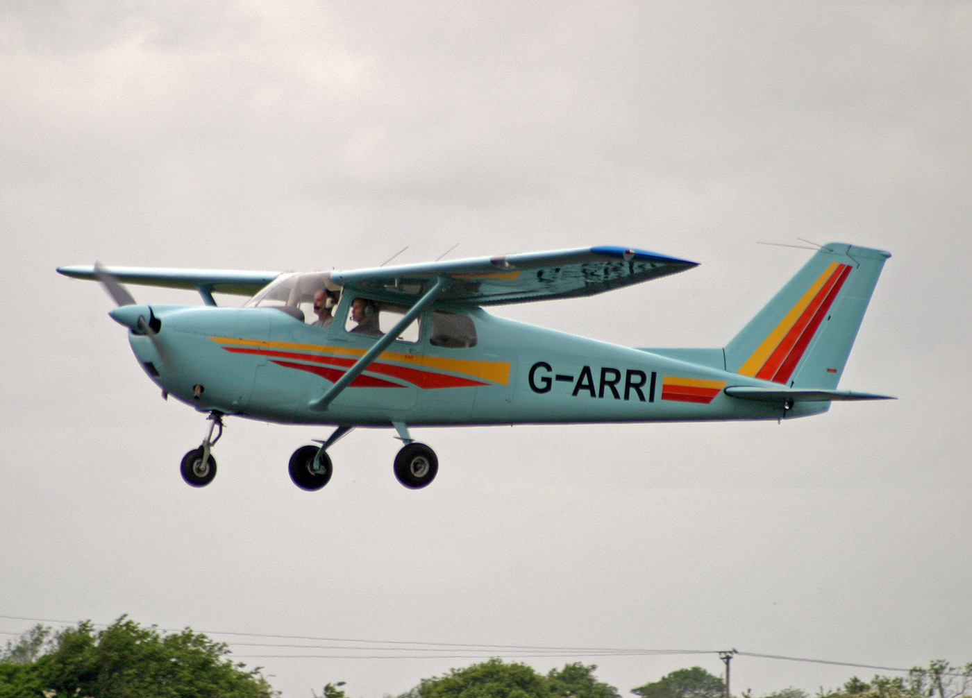 May 2006 at Keevil, Wilts